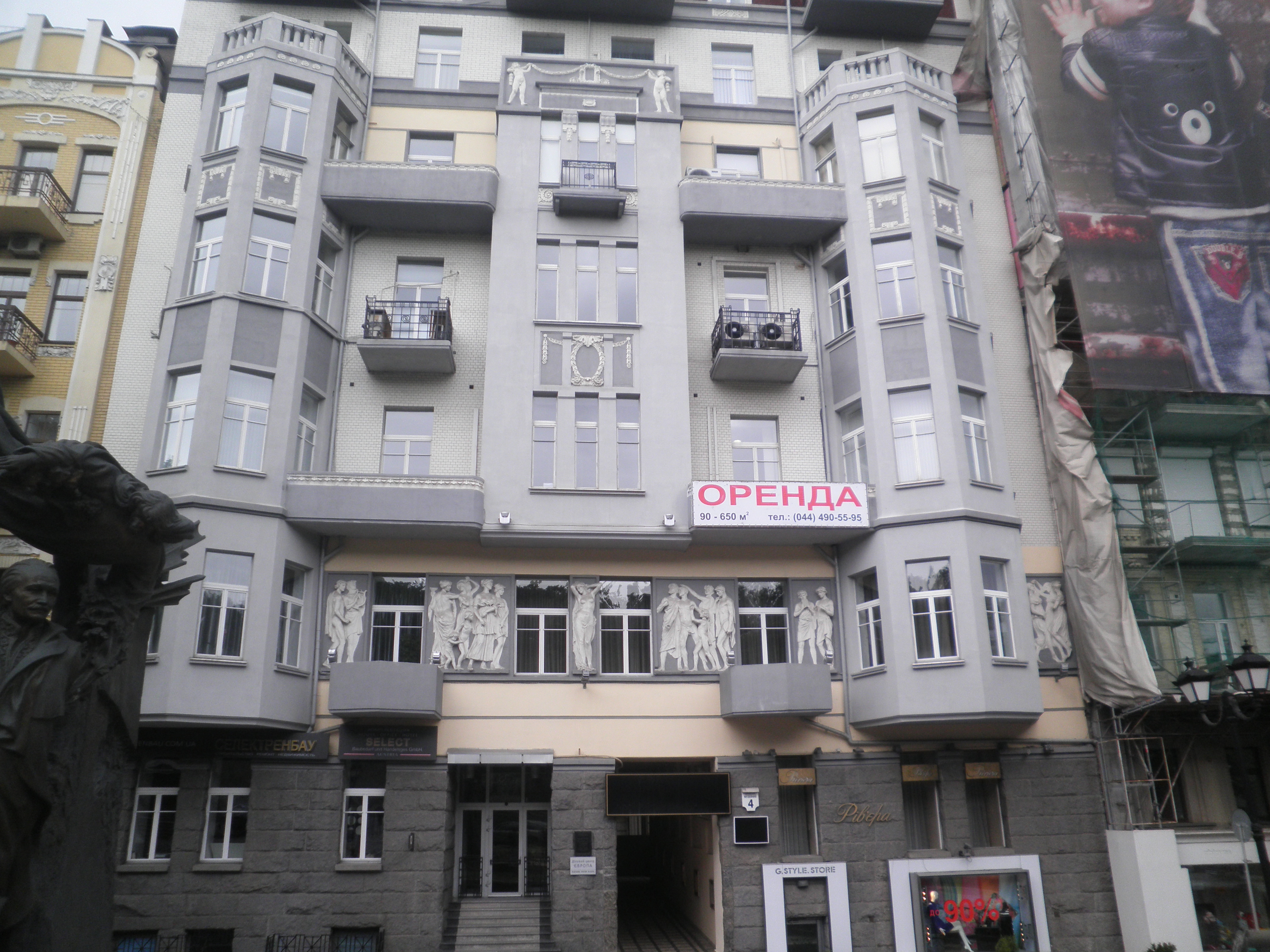 Embassy of Japan in Kyiv